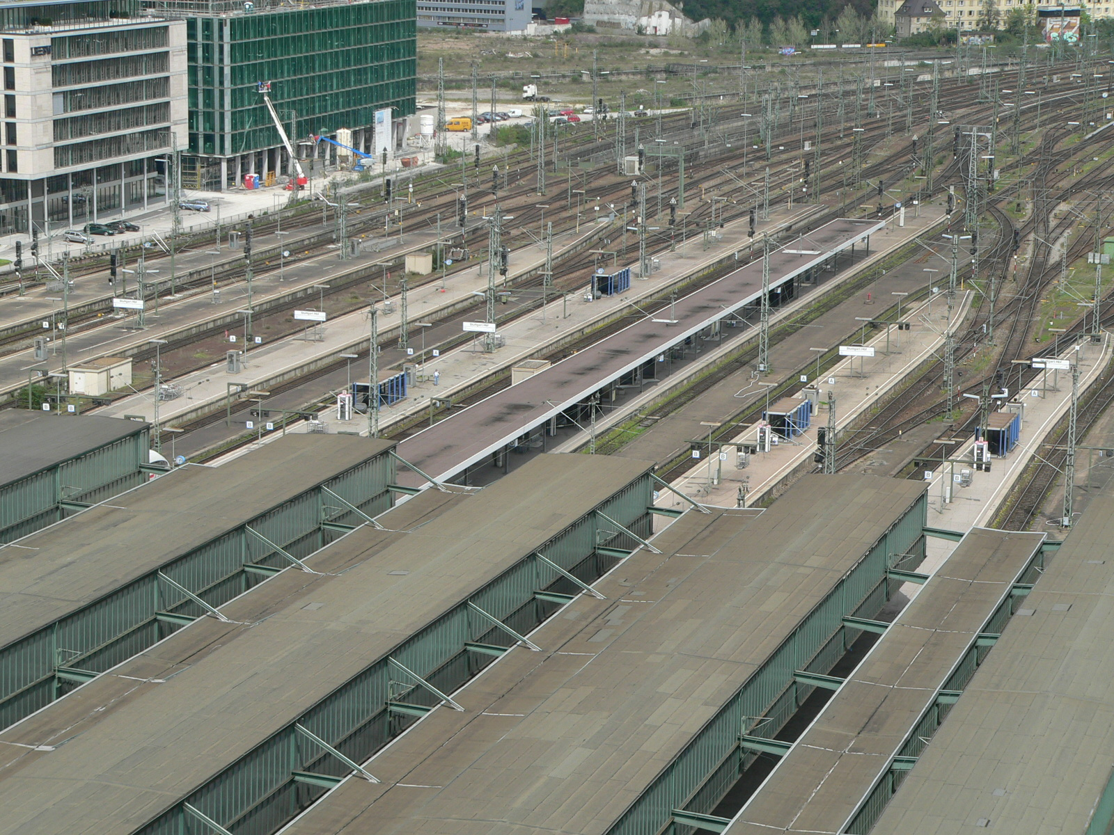 Main station in Stuttgart, Germany, seen from the tower of the station